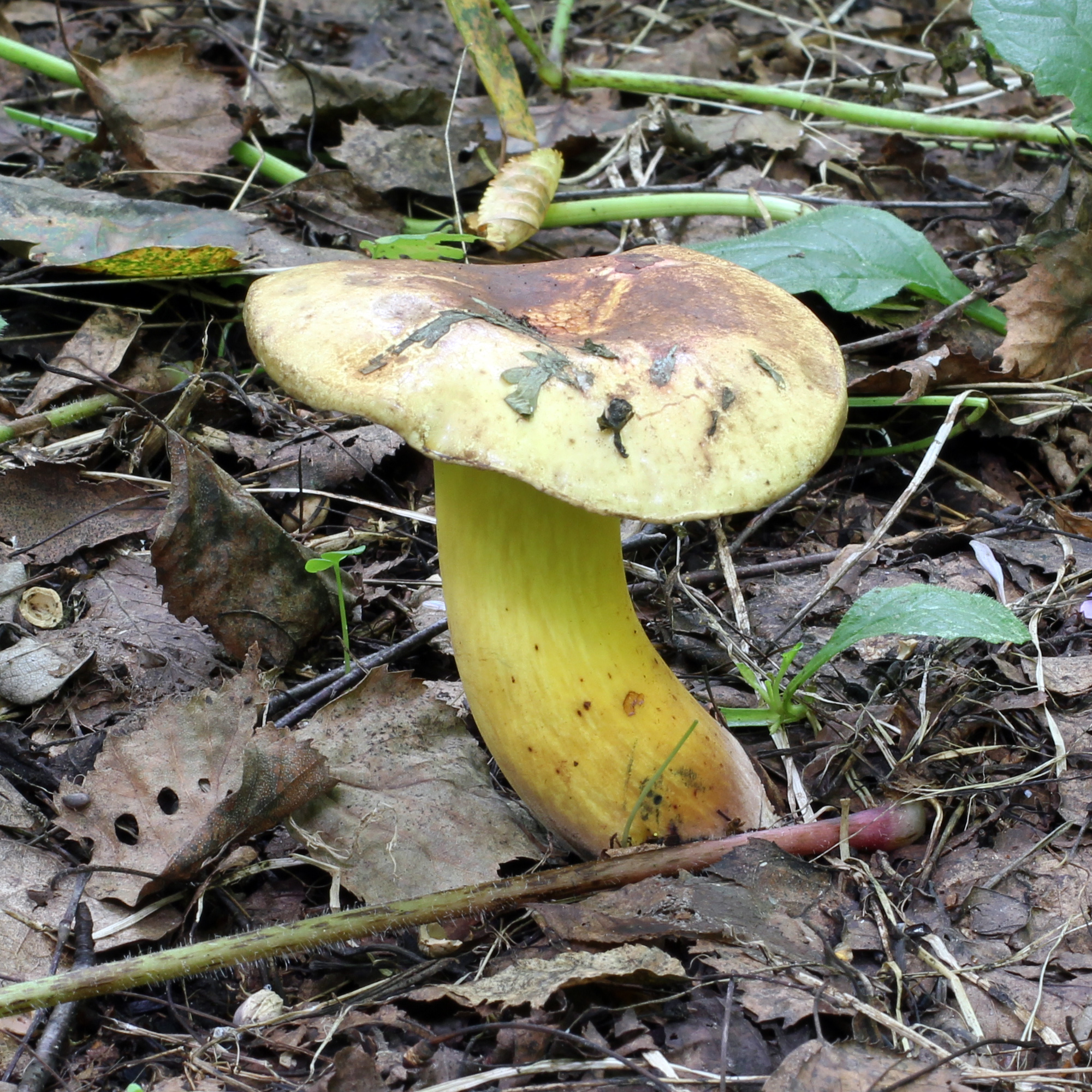 Inkstain Bolete (Boletus pulverulentus). Ukraine.